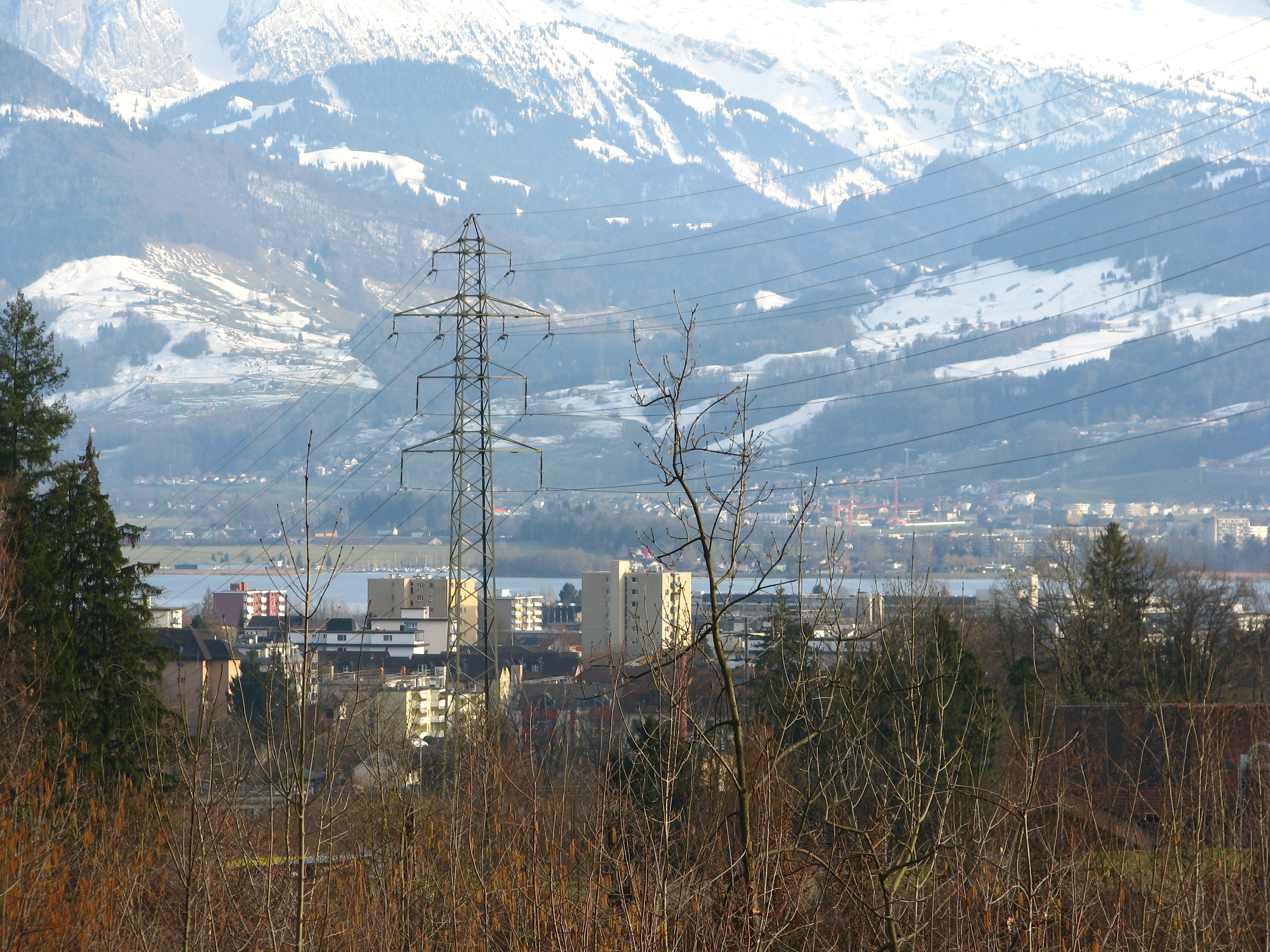 Jona (Switzerland), as seen from nearby Frohberg in Kempraten-Lenggis, Obersee (upper Lake Zürich), probably Lachen and Wägital in the background.